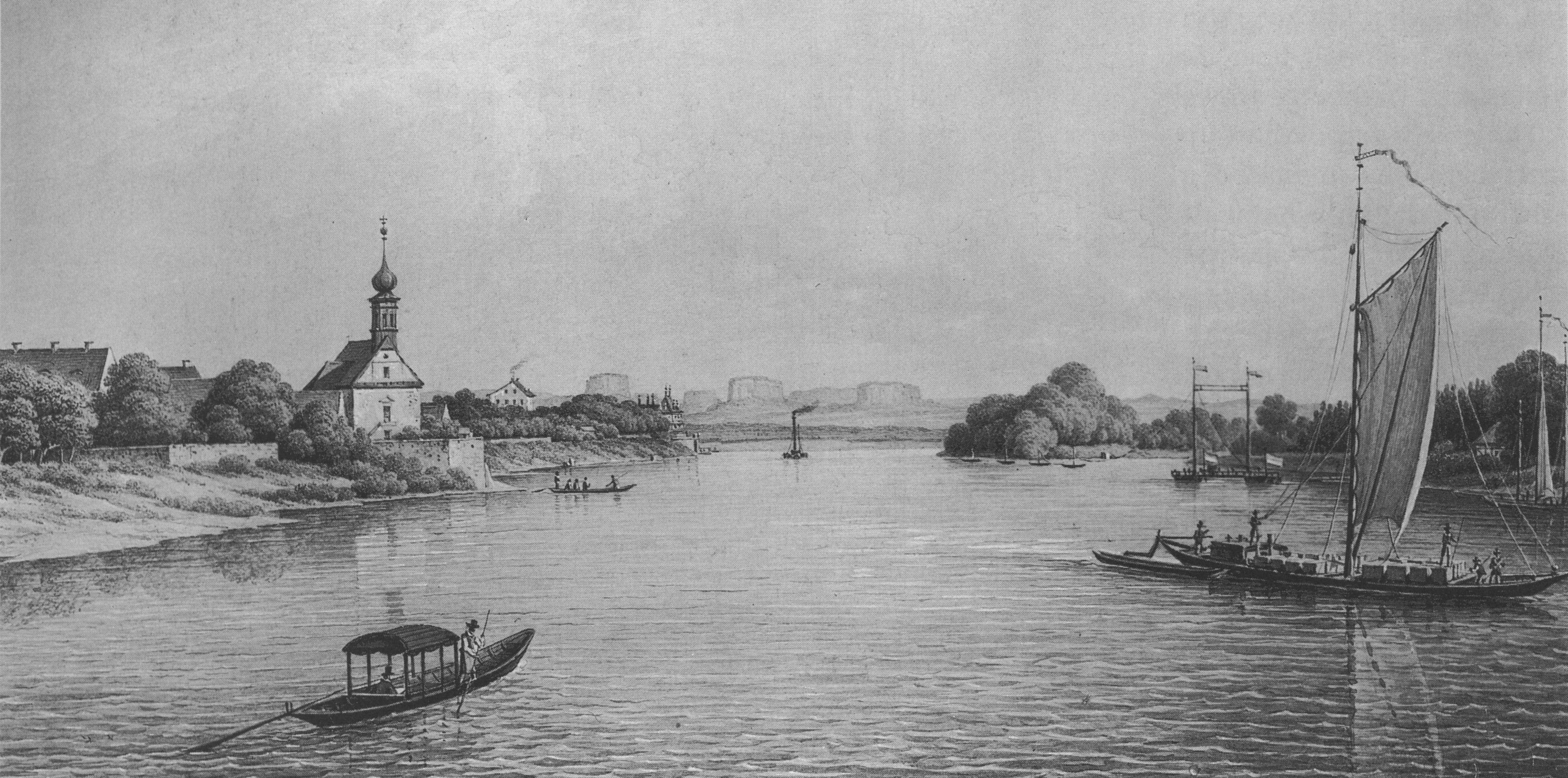 The Church "Maria am Wasser" near Dresden around 1850